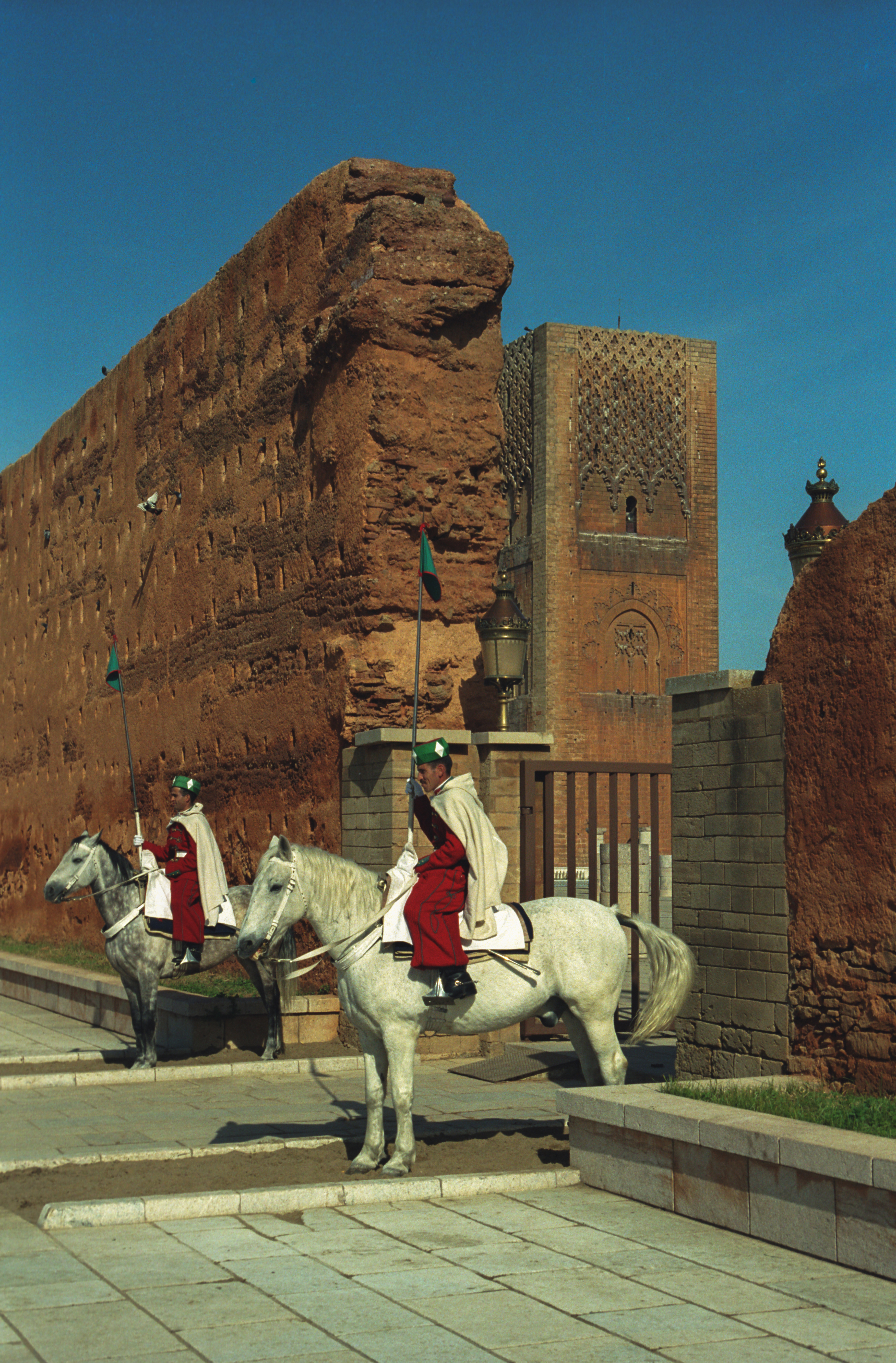 Rabat, King's guard, Mausoleum Mohammed V, Morocco